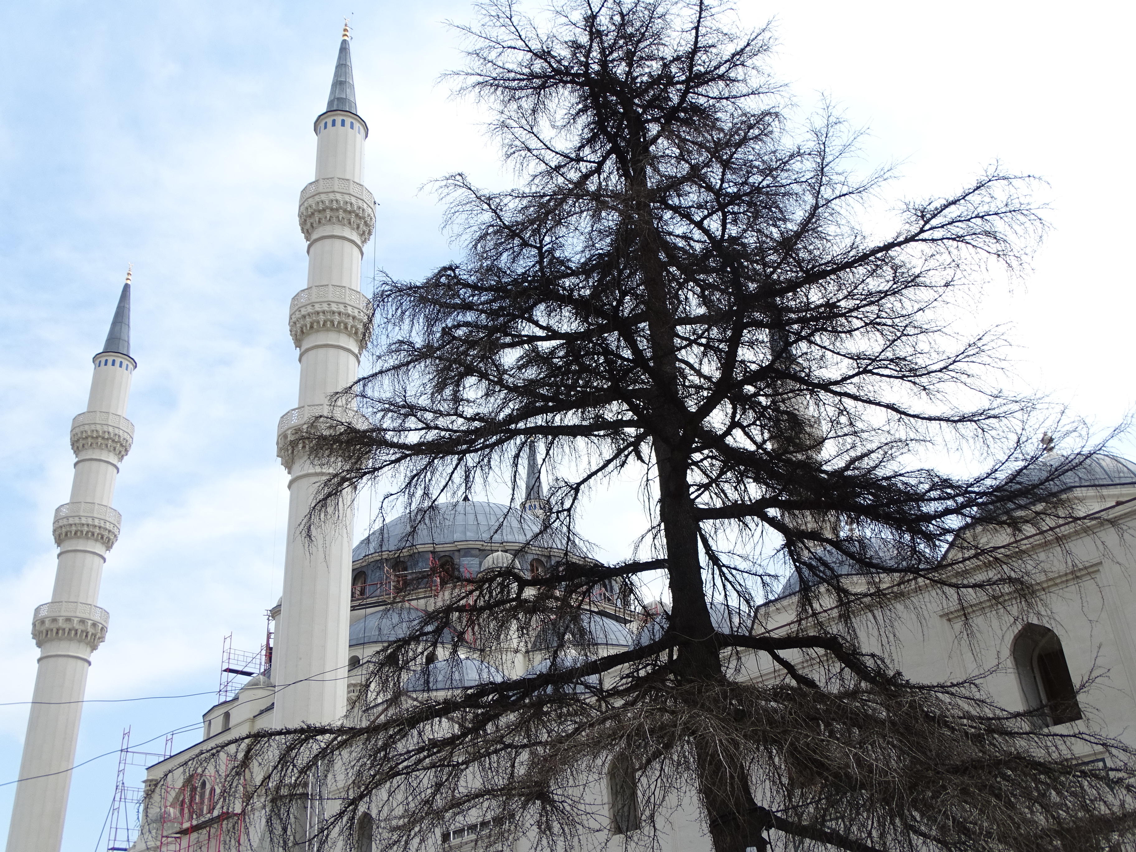 Photos by Adam Jones